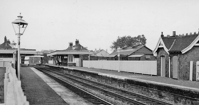 Blantyre Station. View NW, towards Newton and Glasgow (Central); ex-CR Glasgow - Hamilton line, now electrified.